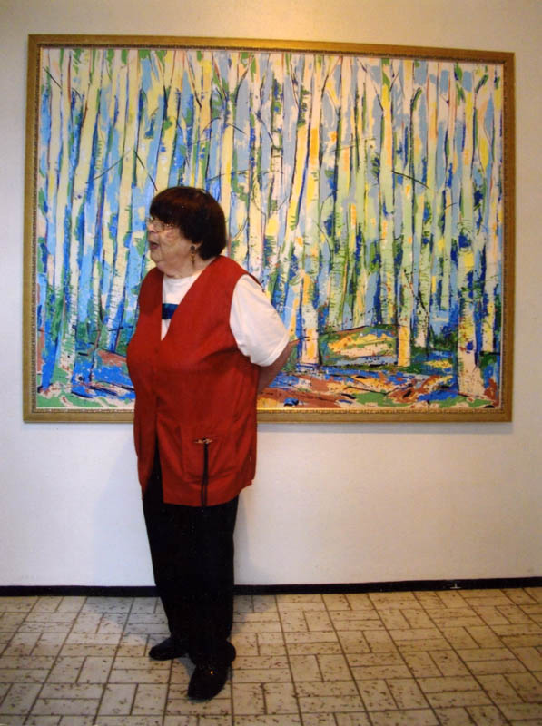 Leena Salmela in her art exhibition 2013